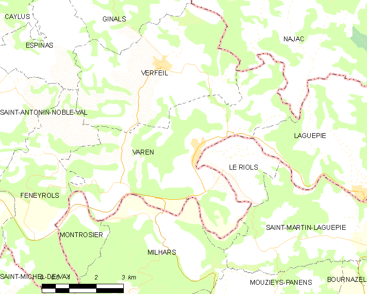 Map of French municipality Varen